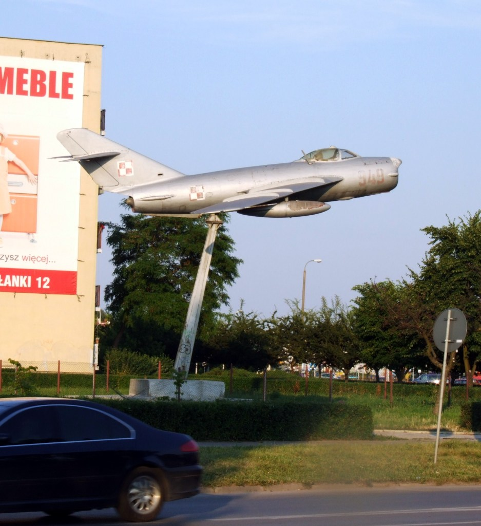 Mikoyan-Gurevich MiG-17PF aeroplane in Ostrowiec Swietokrzyski